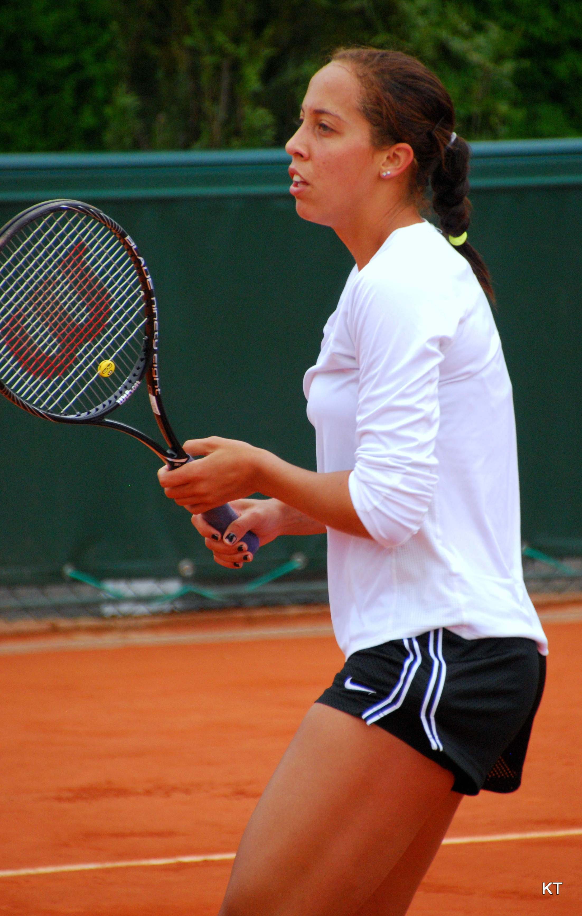 At the French Open